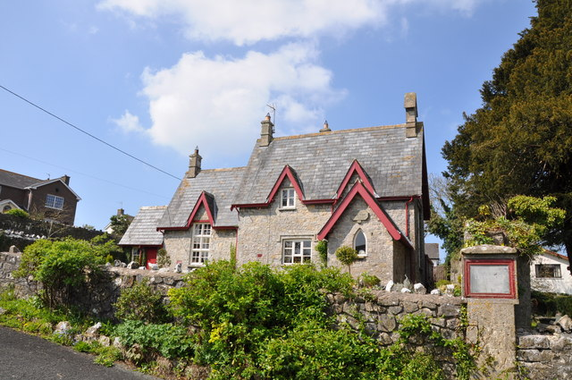 The old Church School - Llysworney Note the notice board framed in red to the right. it commemorates the achievement of the village for winning the DC Jones Challenge Cup for being the best kept village in the Vale of Glamorgan in the years 1954 to 1968. Sadly the notice is in need of some TLC at the time of the photograph.